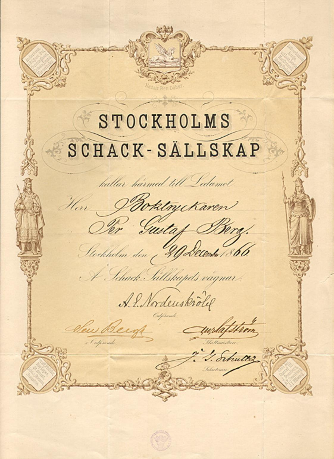 Underskrifter första styrelsen 1866